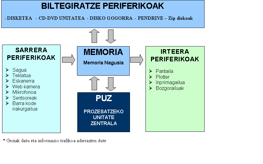 Computer´s flow information